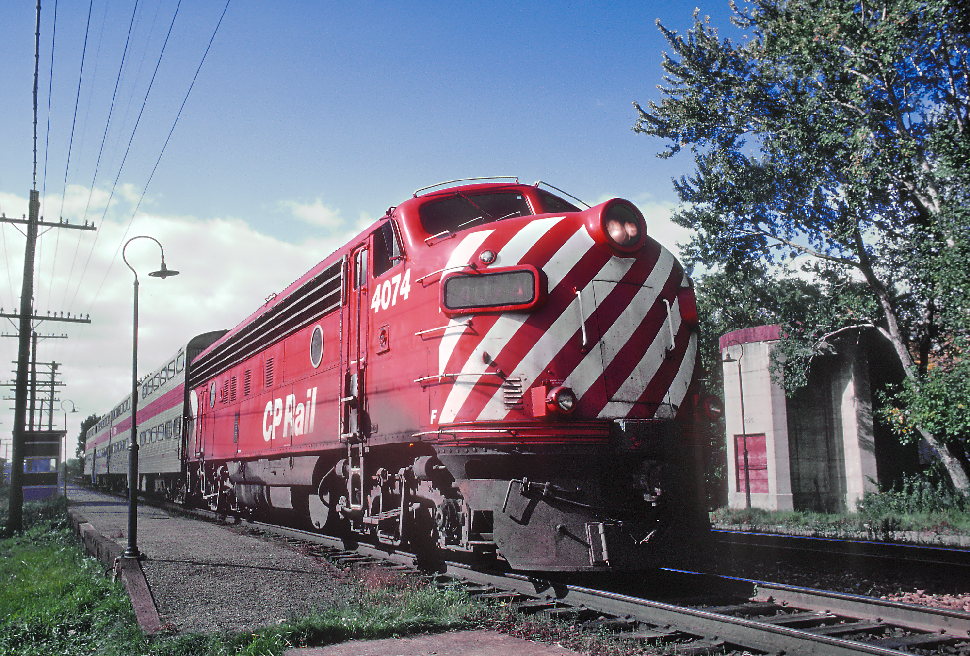 CP 4074 at Vaudreuil Station, since renamed Dorion (a Montreal suburb) in October 1980.